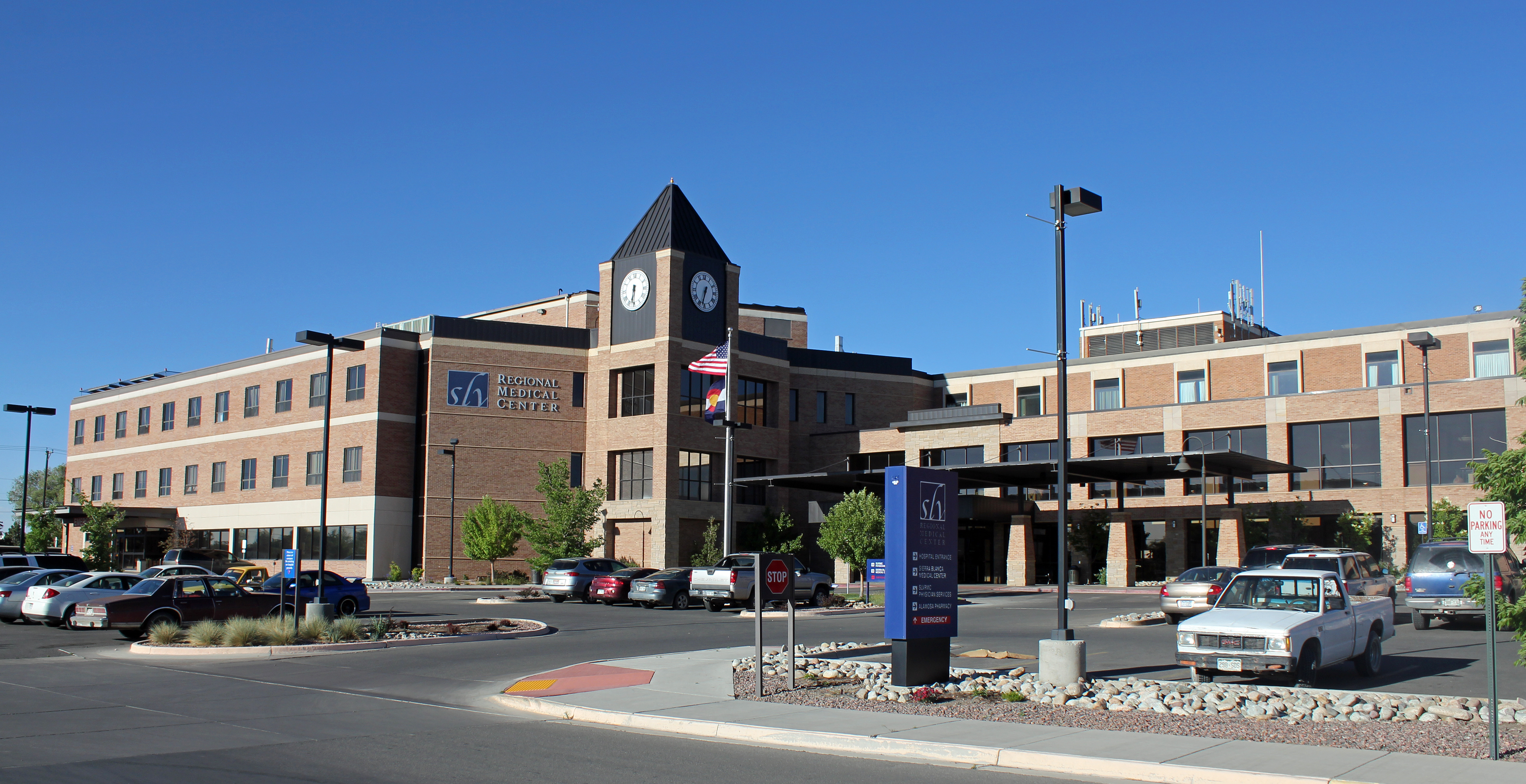 The San Luis Valley Regional Medical Center, located at 06 Blanca Avenue, Alamosa, Colorado.